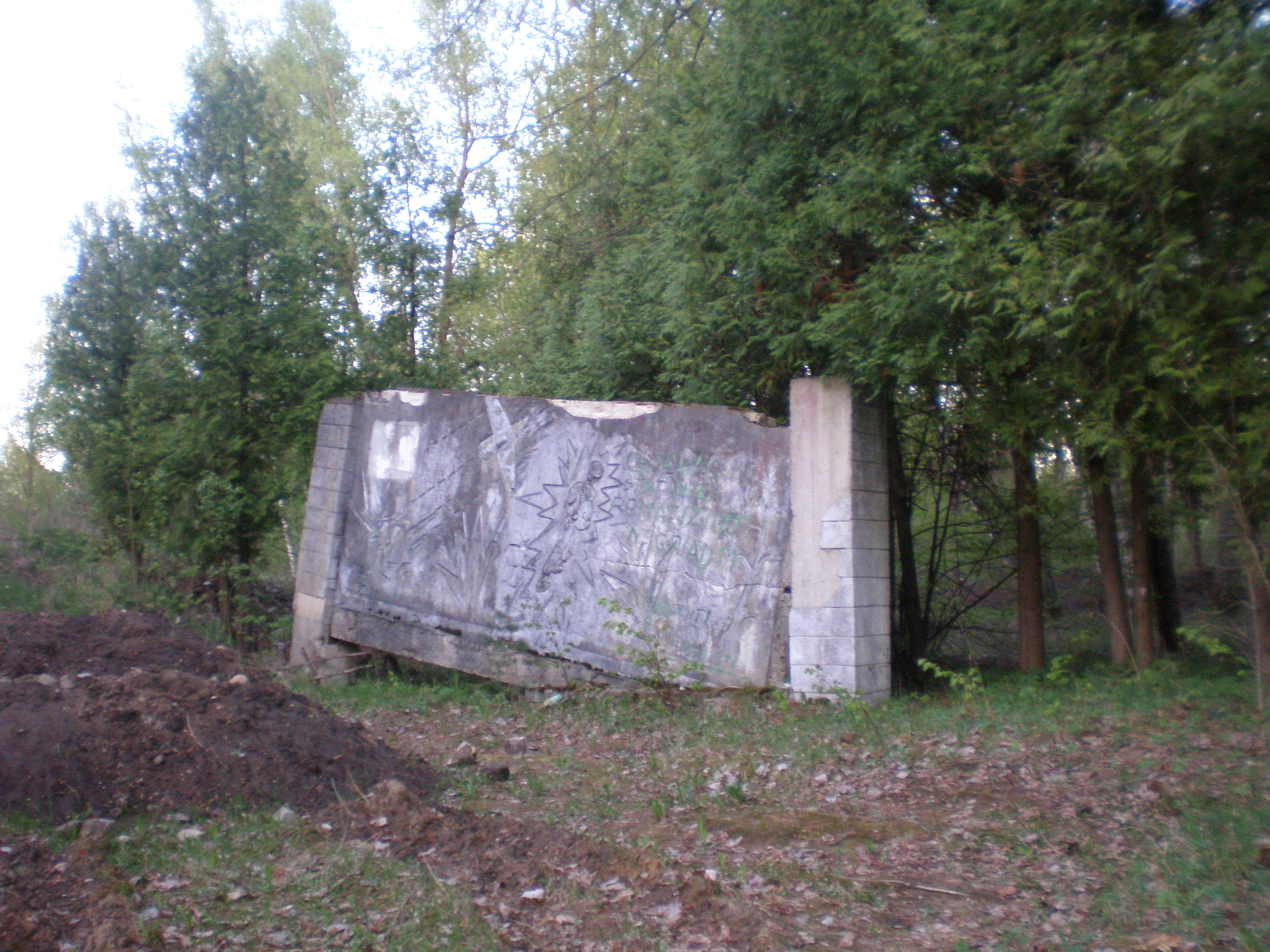 Gulbiniškiai' Missile Base